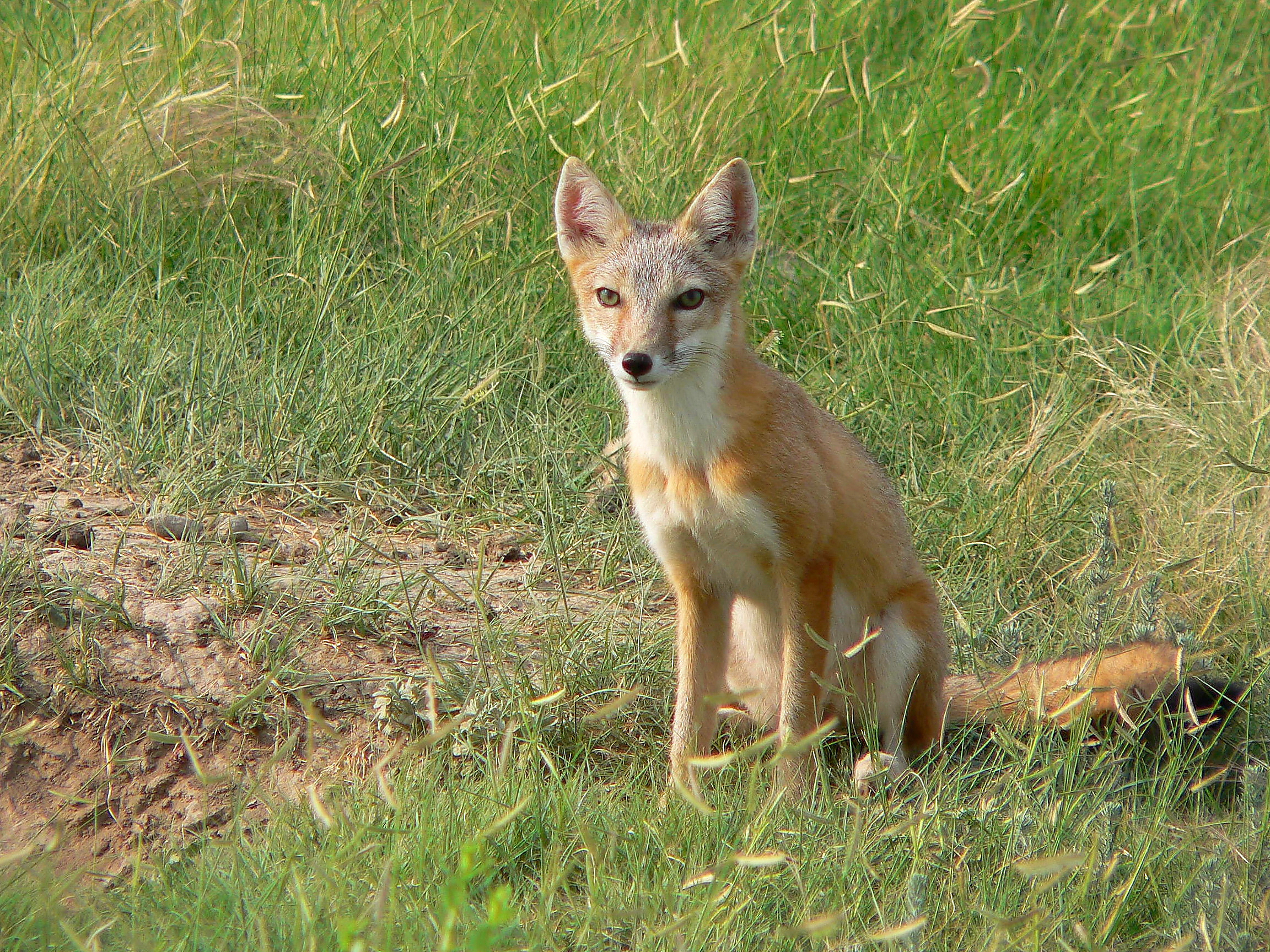 This Swift fox (Vulpes velox) doesn't mind living in town (a black-tailed prairie dog town), where the grocery store is never far. He prefers to do his shopping at night and just might bump into his neighbor, the black-footed ferret on this private land in western Kansas. Credit: Tony Ifland / USFWS Photo Contest Entry #51